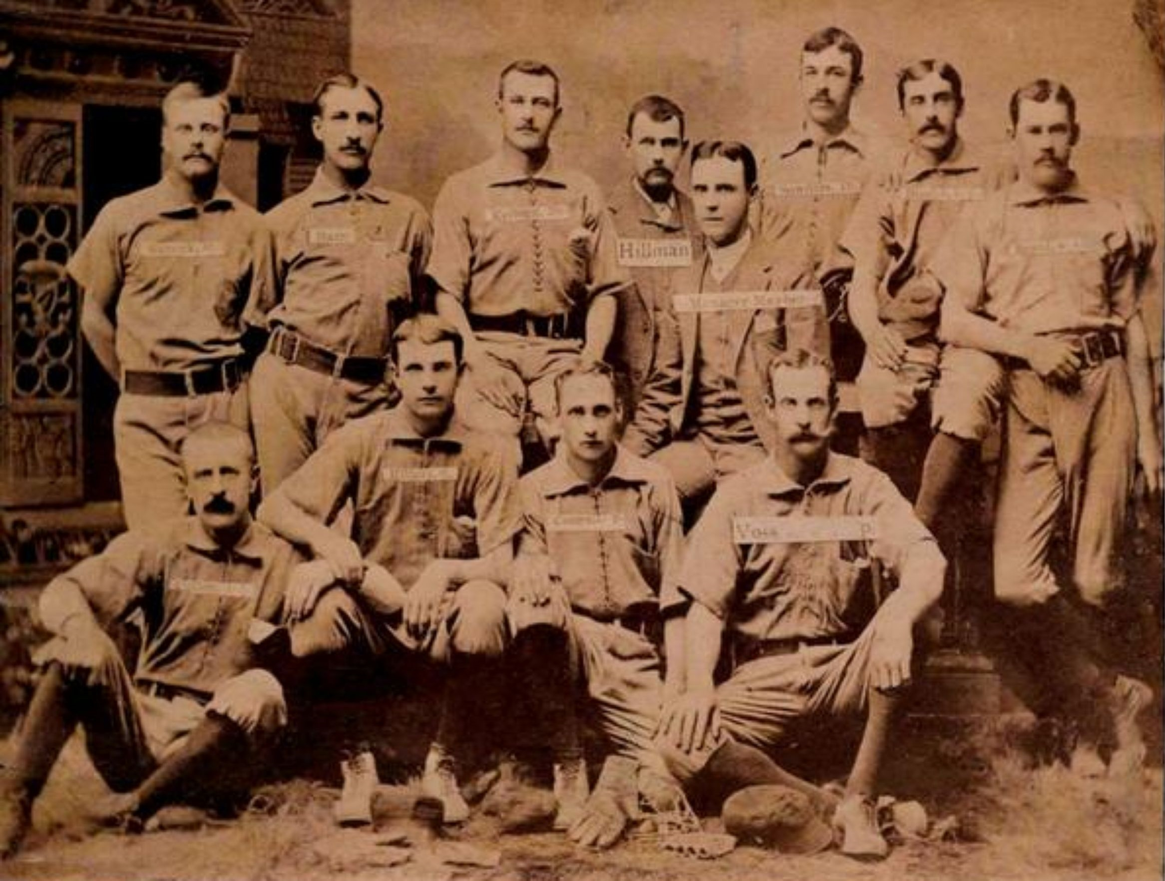 A photograph of the 1885 Nashville Americans, which played in the original Southern League